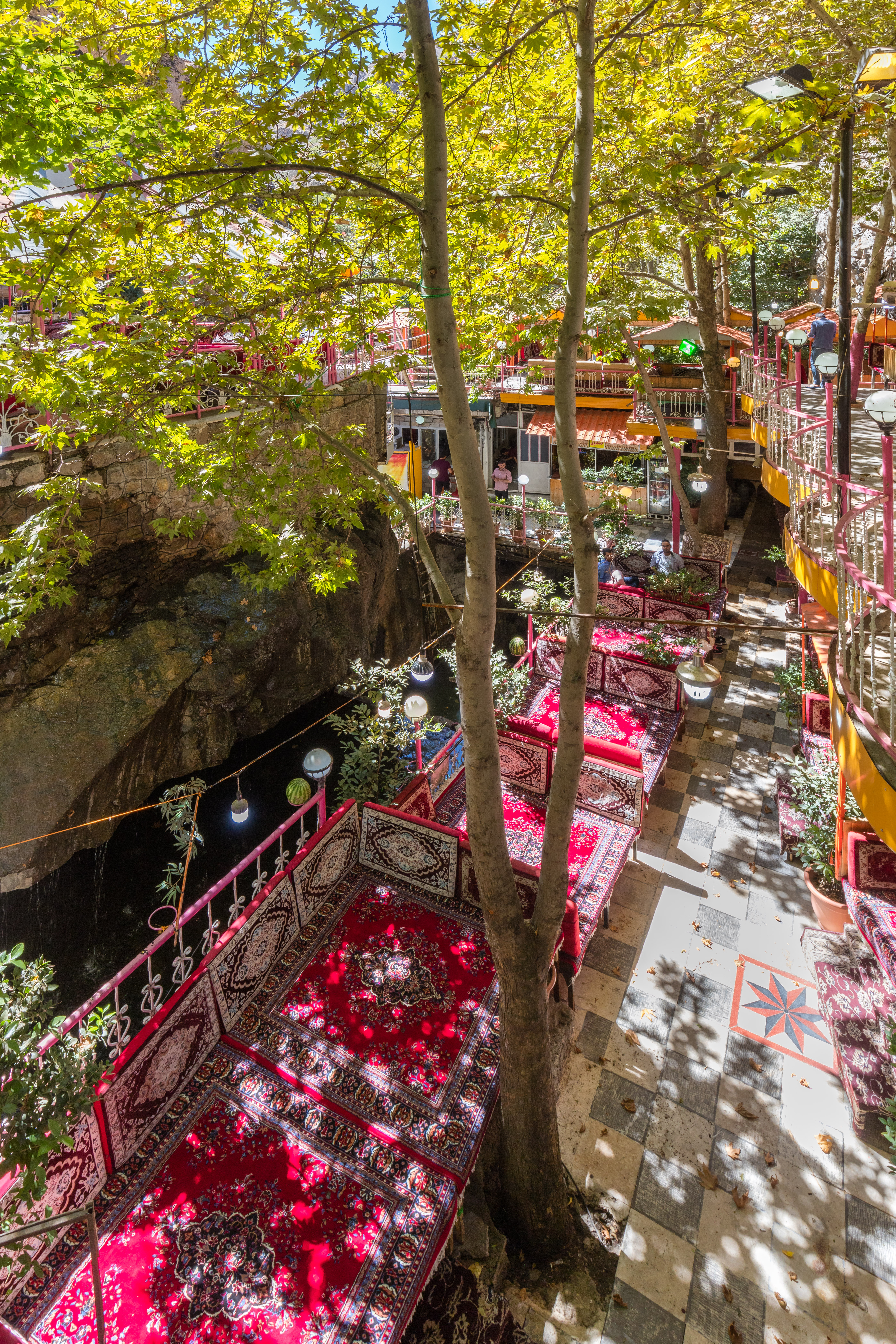 Darband, Tehran, Iran